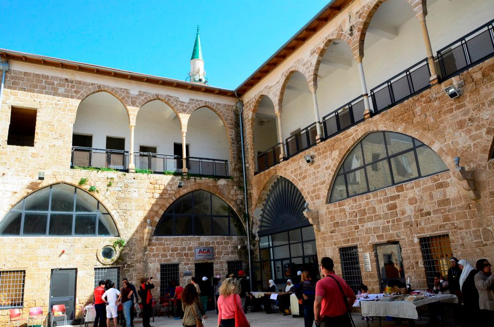 Al-Jazzar Mosque, Old acre